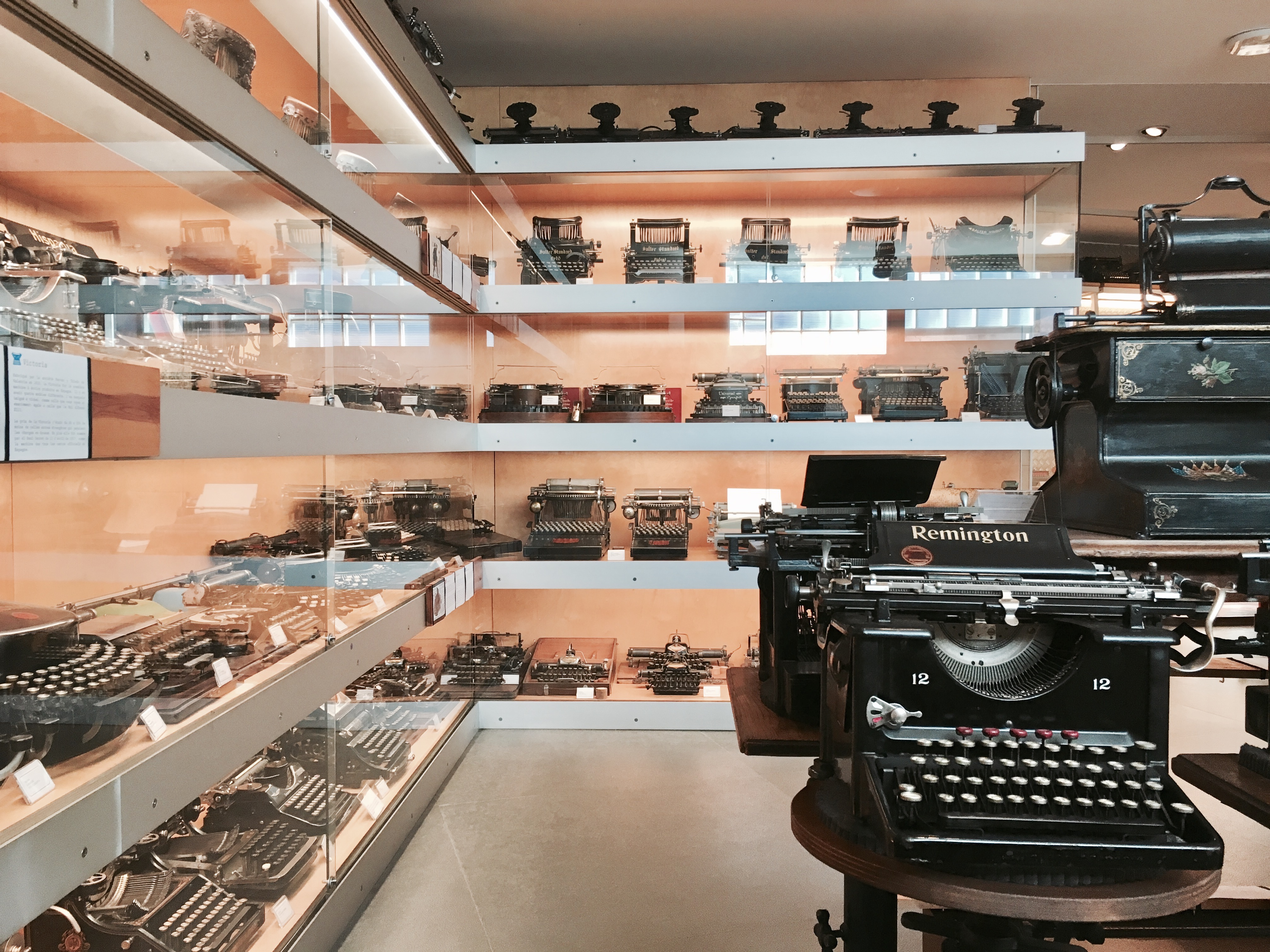 Typewriter exhibition in the Technical Museum in Empordà, Figueres, Catalonia